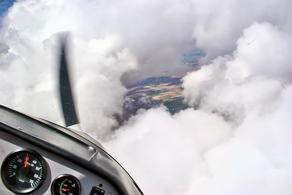 A hole in the clouds